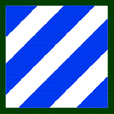 3rd Infantry Division Shoulder Sleeve Insignia